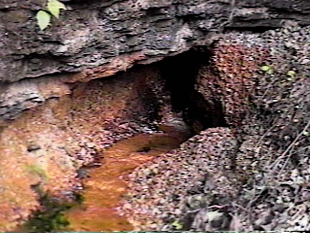 Acid mine drainage